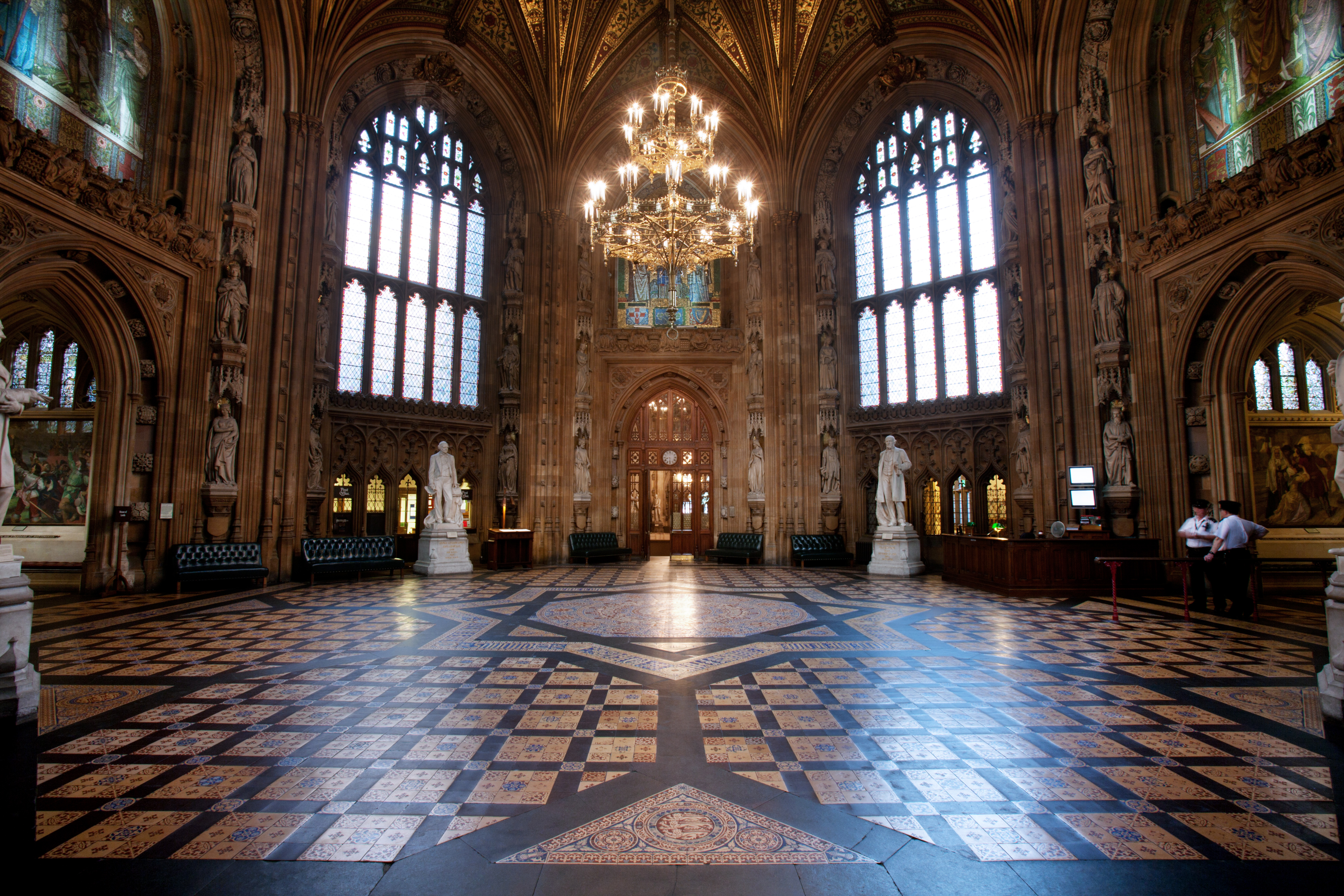 House of Lords & House of Commons Lobby. The Parliament. London. UK